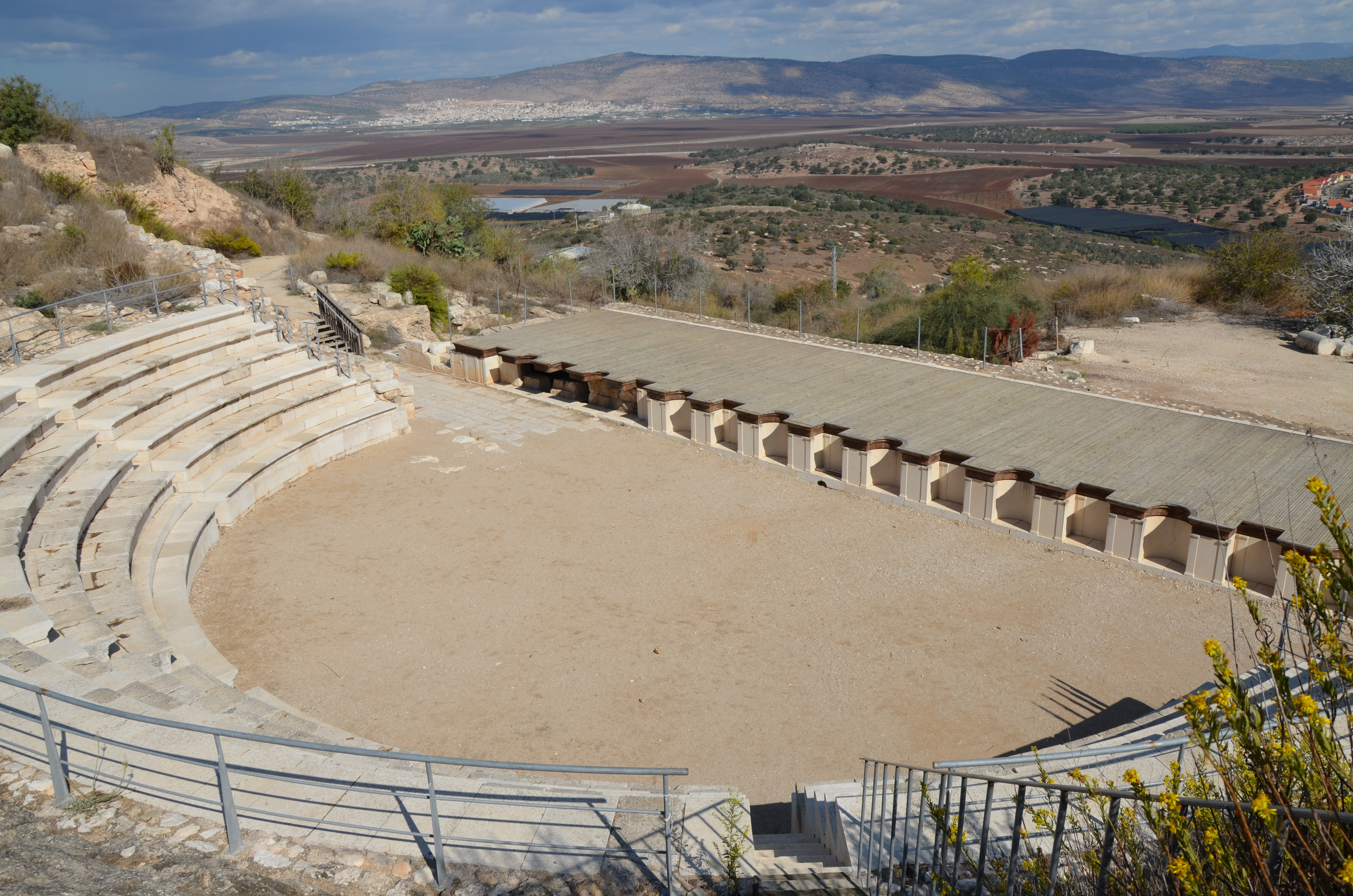 Sepphoris (Diocaesarea), Israel